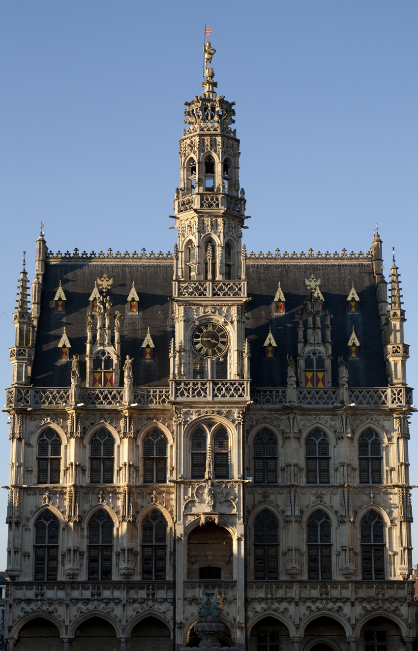 Town hall of Oudenaarde, Belgium